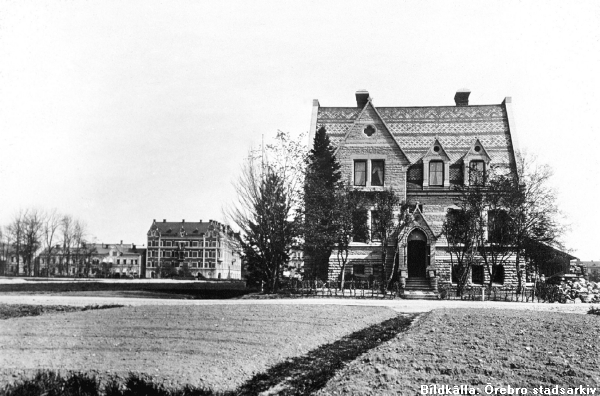 The house of the Swedish Architect Adolf Kjellström